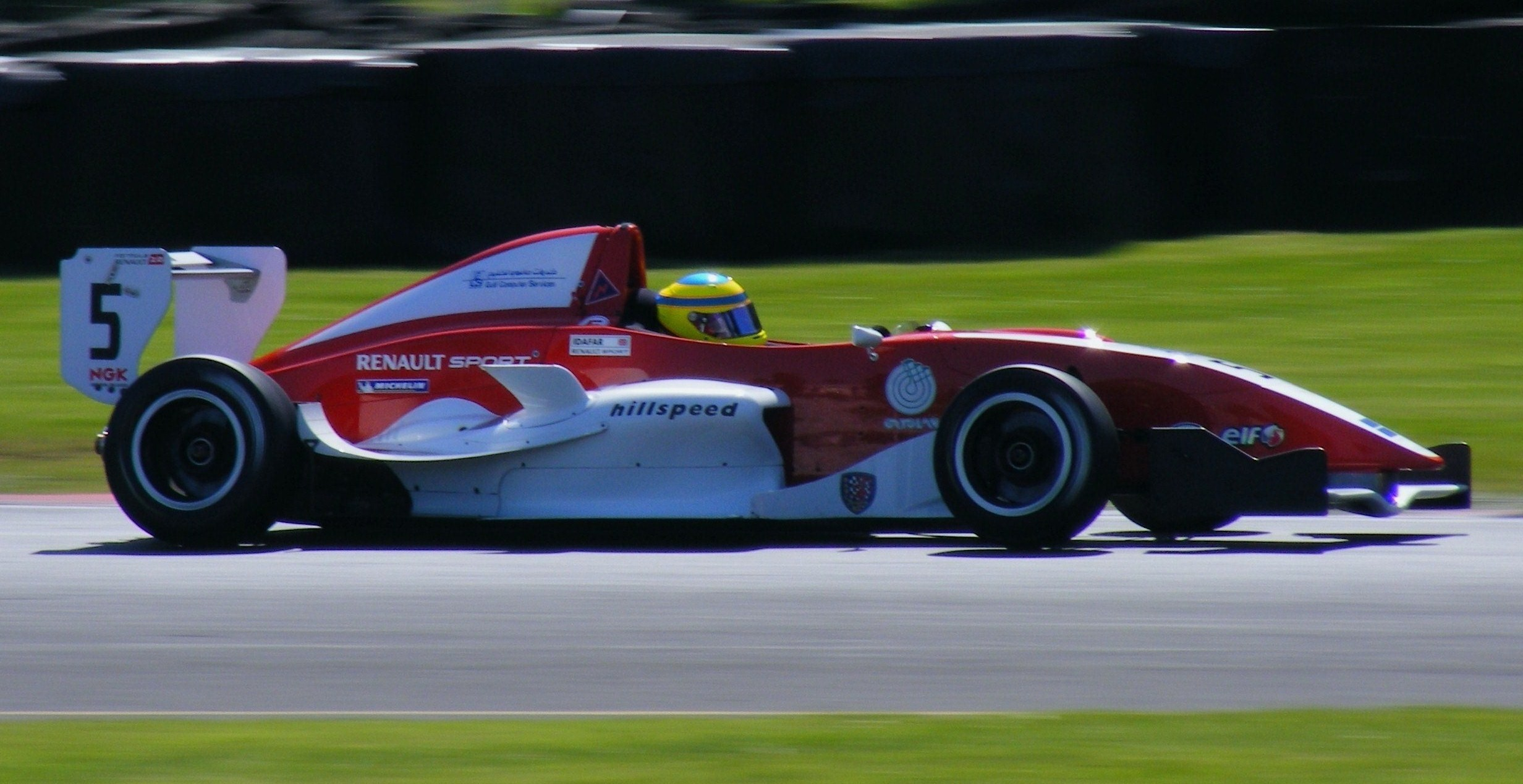 Menasheh Idafar exits Old Hall Corner at Oulton Park during the first qualifying session.